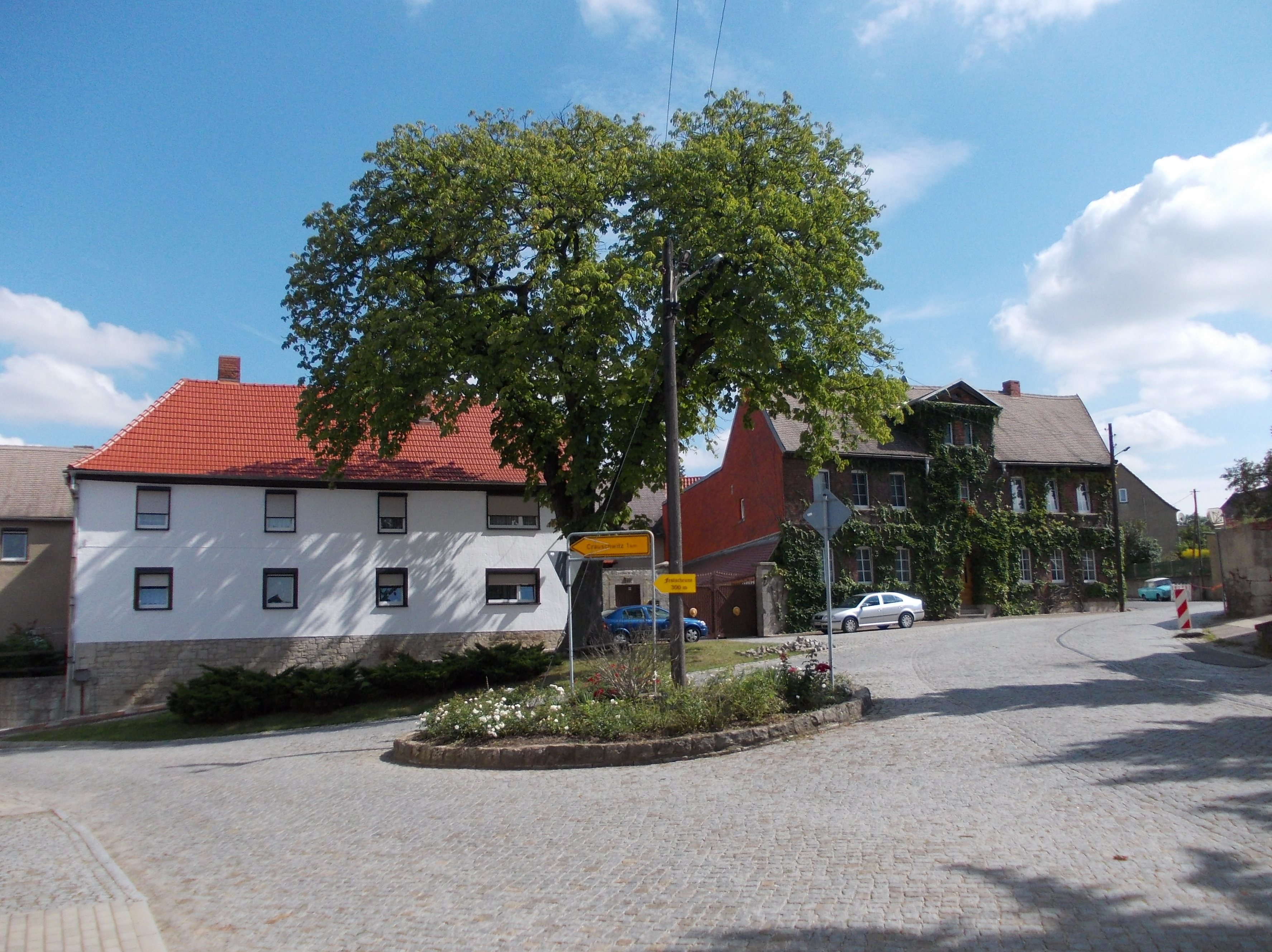 At the central crossroads in Sieglitz (Molauer Land, district of Burgenlandkreis, Saxony-Anhalt)